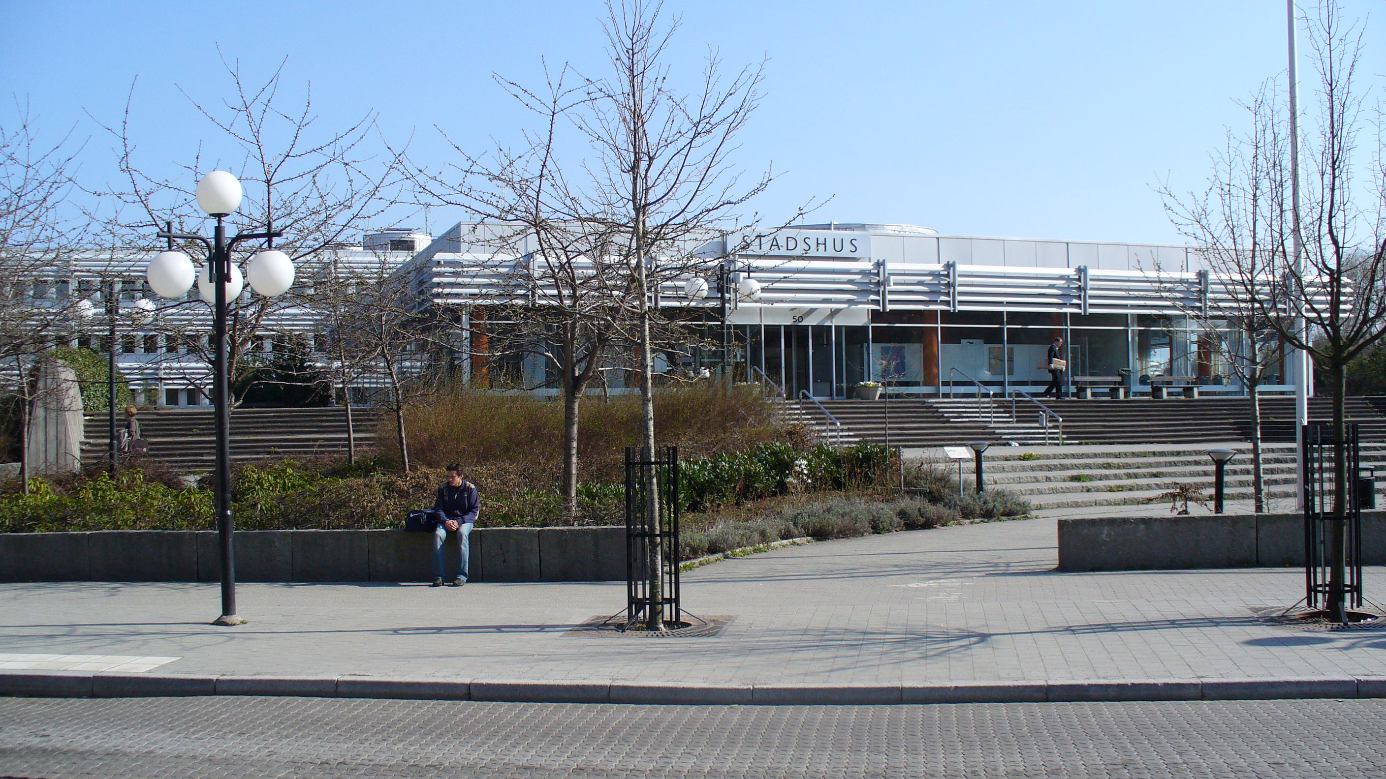 Lidingö Town Hall